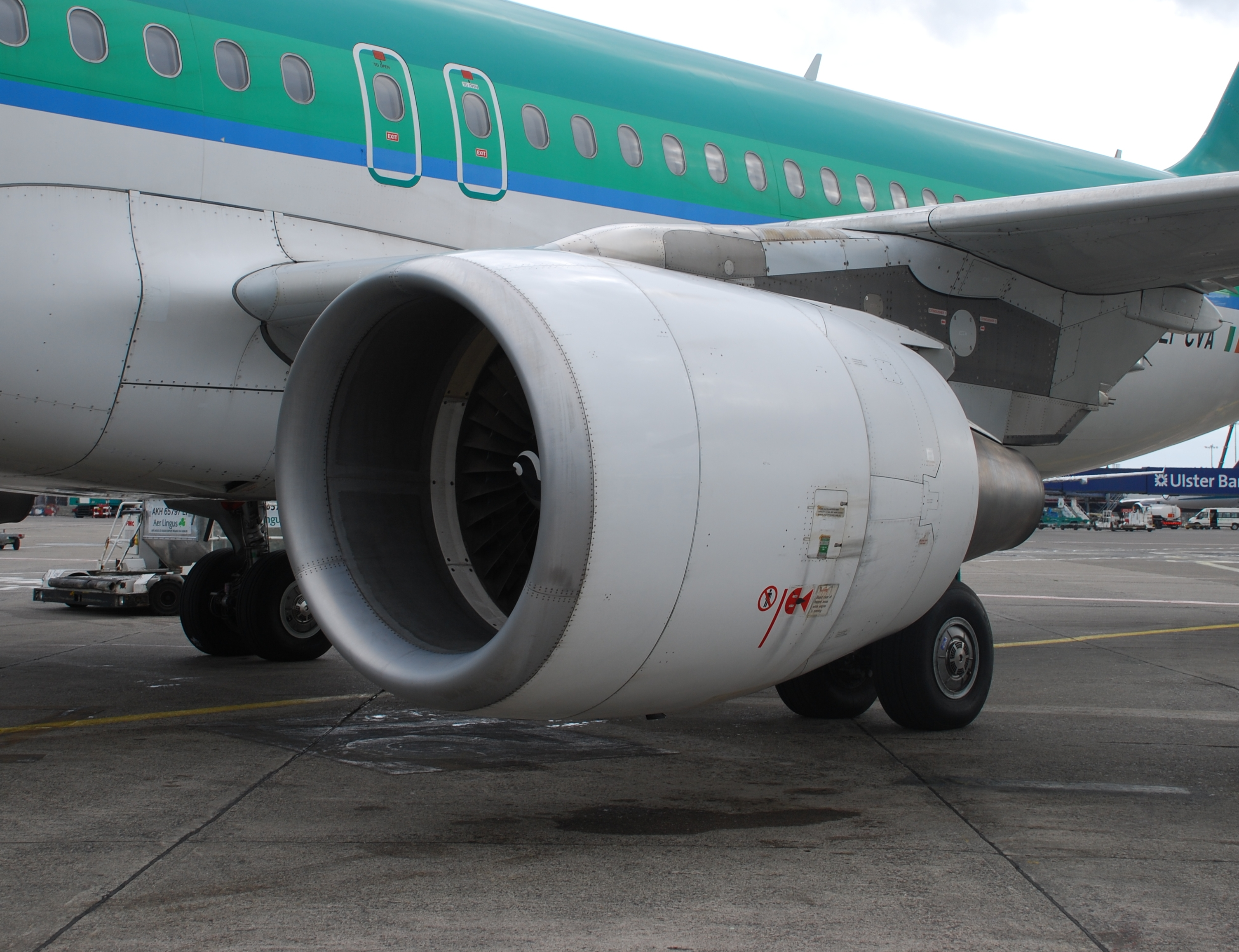 CFM 56 Engine on Aer Lingus A320 EI-CVA at Dublin Airport